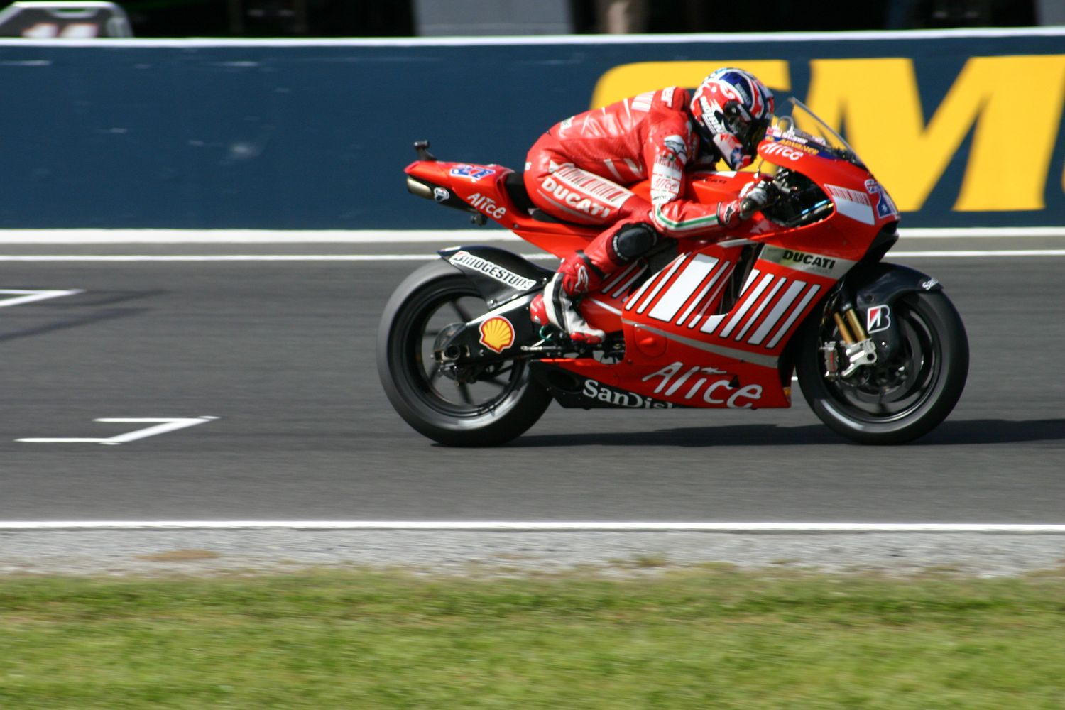 Casey Stoner, riding his Marlboro Ducati at the 2007 Australian Grand Prix in Philip Island.